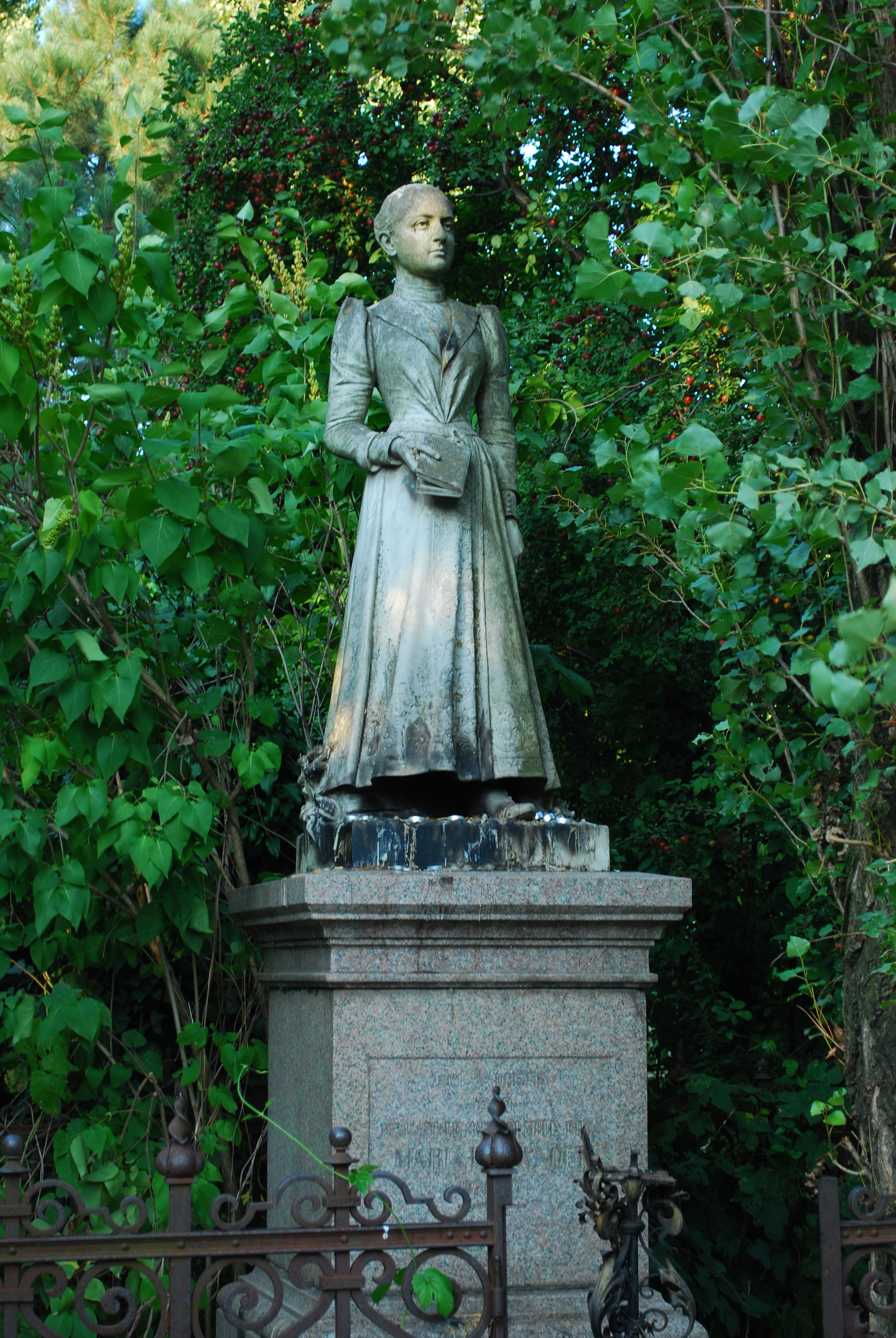 Monument to Maria Romanoff in Cernica monastery cemetery, Pantelimon, Ilfov County, Romania